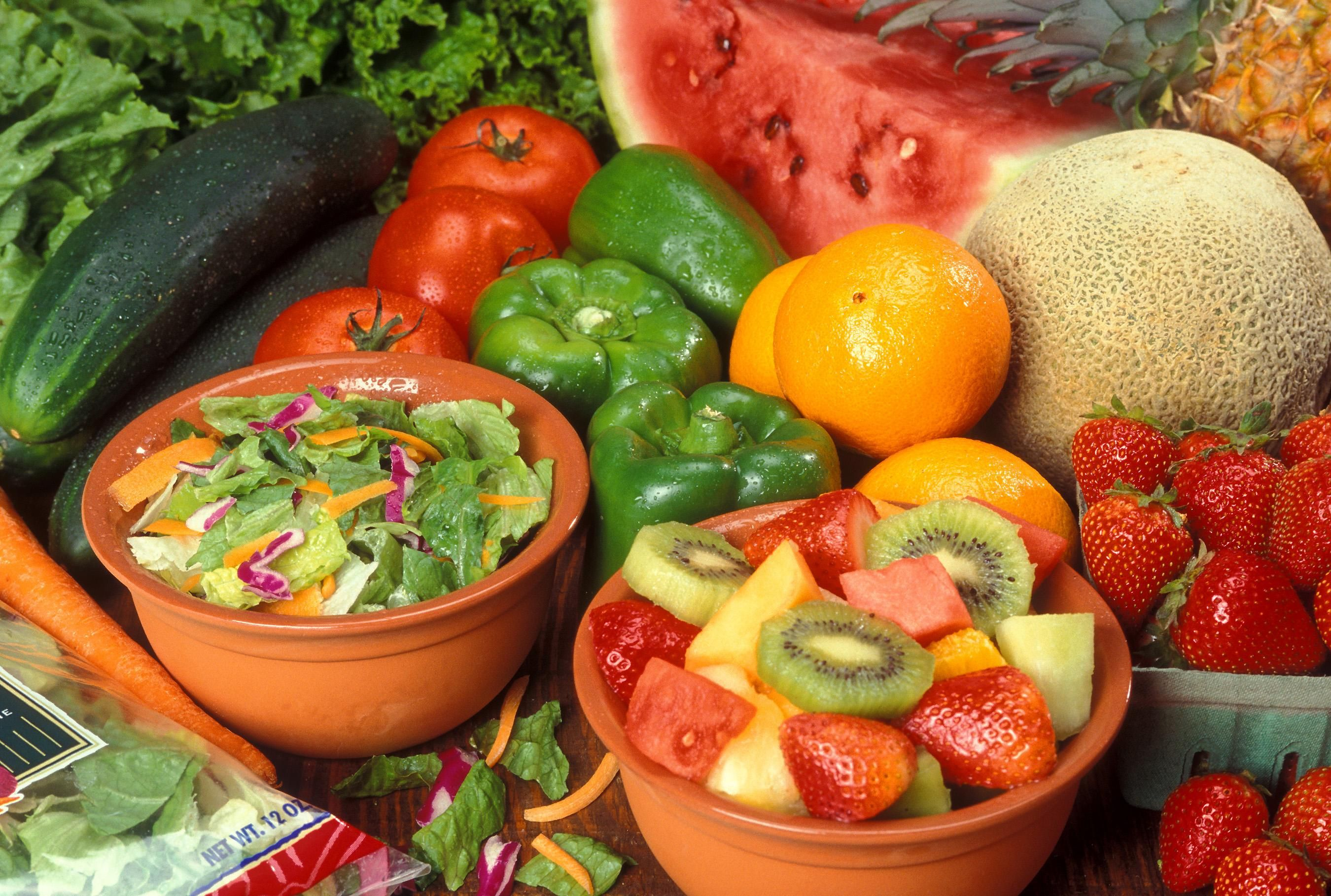 Image title: Fresh cut fruits and vegetables Image from Public domain images website